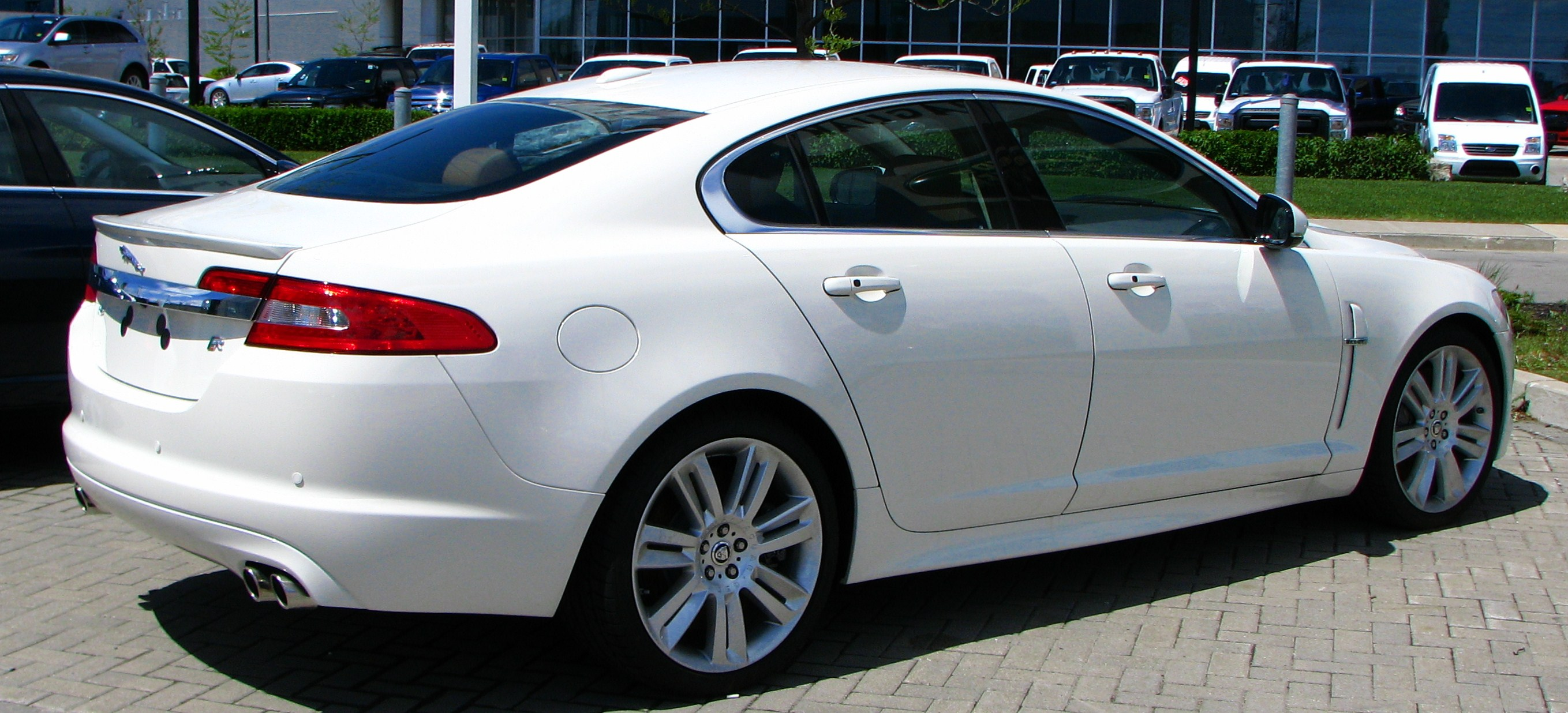 Jaguar XFR